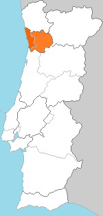 Province of Douro Litoral (Metro Area of Porto in darker colour)